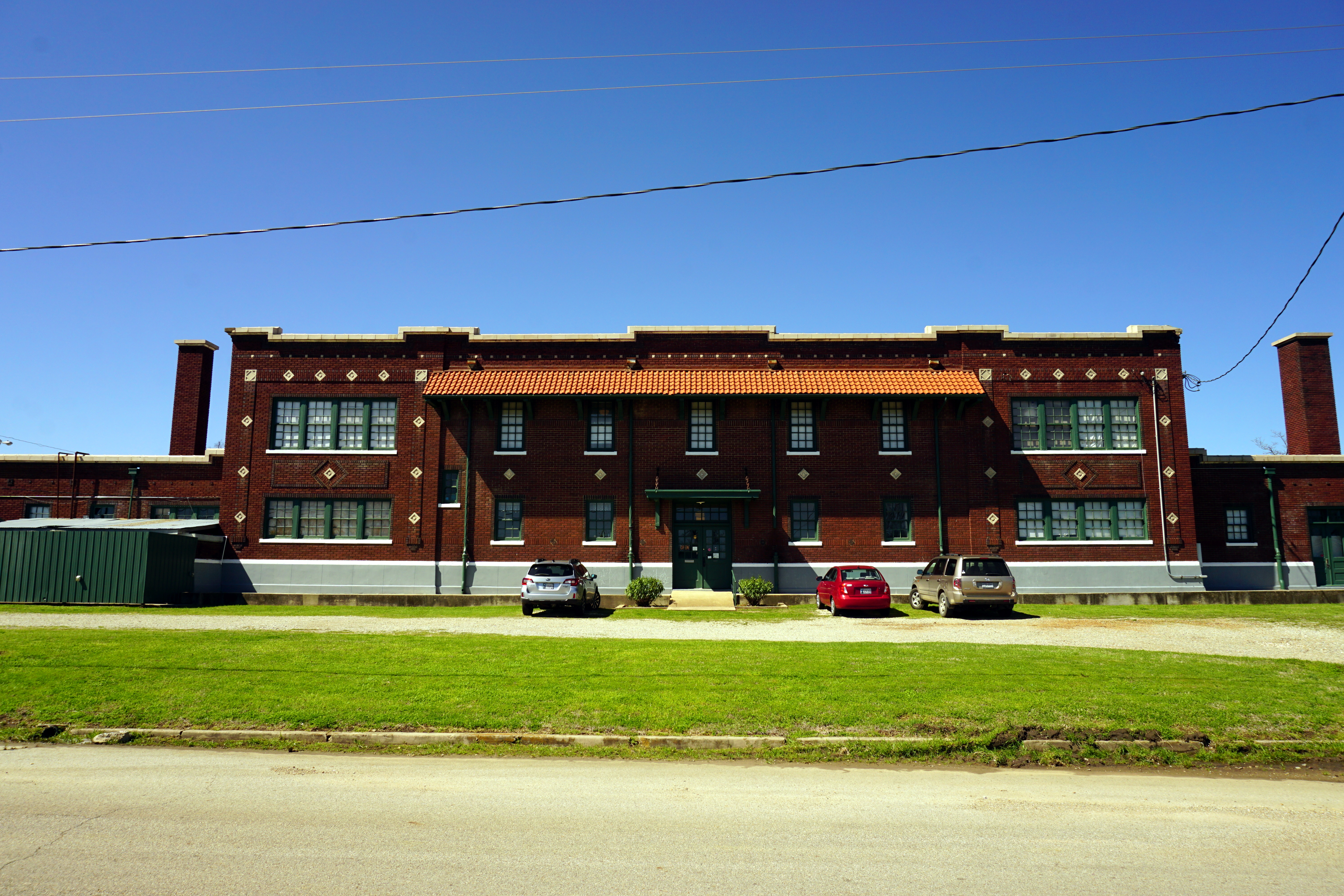 The exterior of the Frisco Depot Museum in Hugo, Oklahoma (United States).